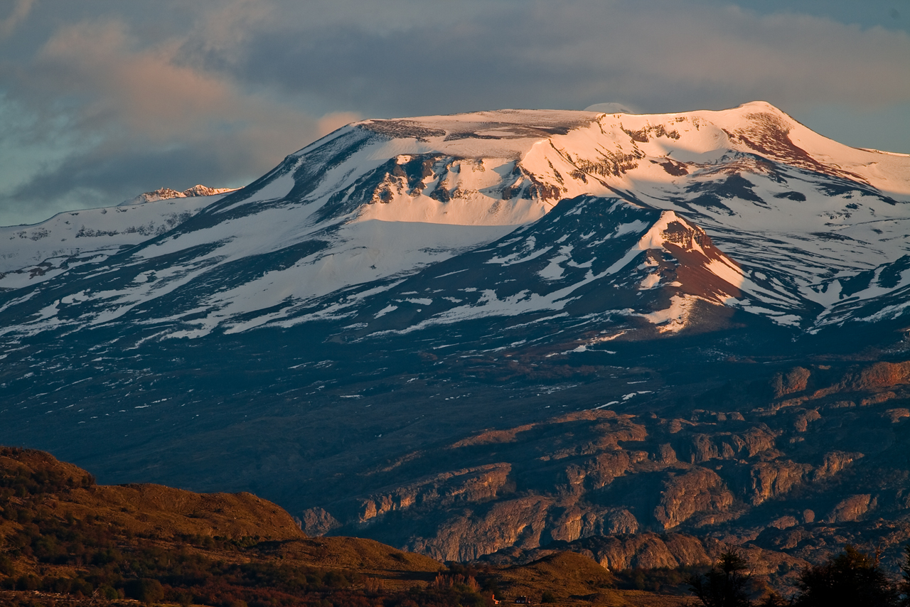 A view of the Andes by Argentino Lake